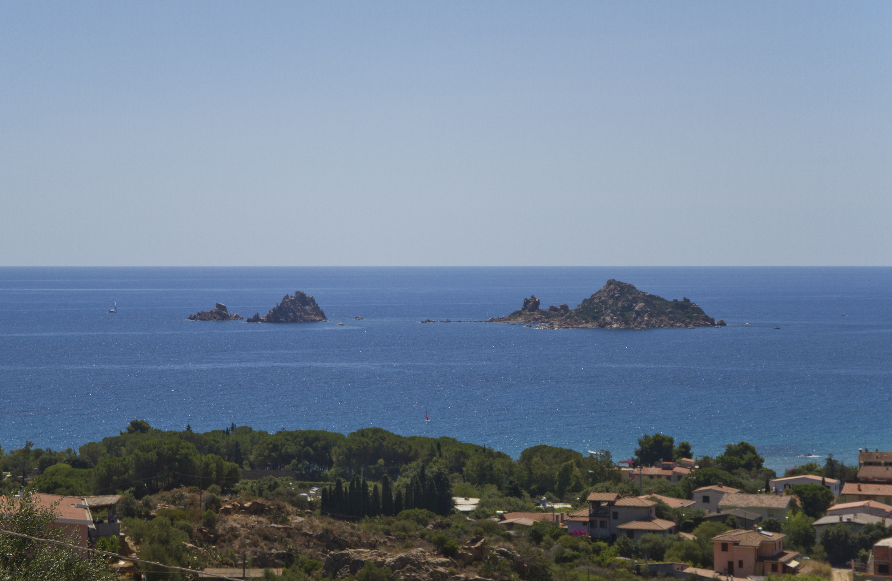 The Ogliastra islands